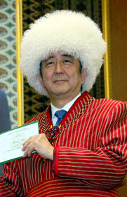 Gurtnyýaz Nurlyýewiç Hanmyradow, Rector of Turkmen State University named after Magtymguly, appointed Shinzō Abe as the Emeritus Professor at Turkmen State University named after Magtymguly in Ashgabat City on October 23, 2015.